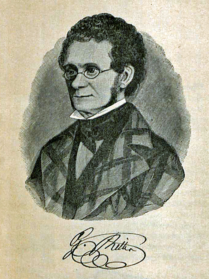 Georg Ritter (1795-1854), publisher and printer from Zweibrücken